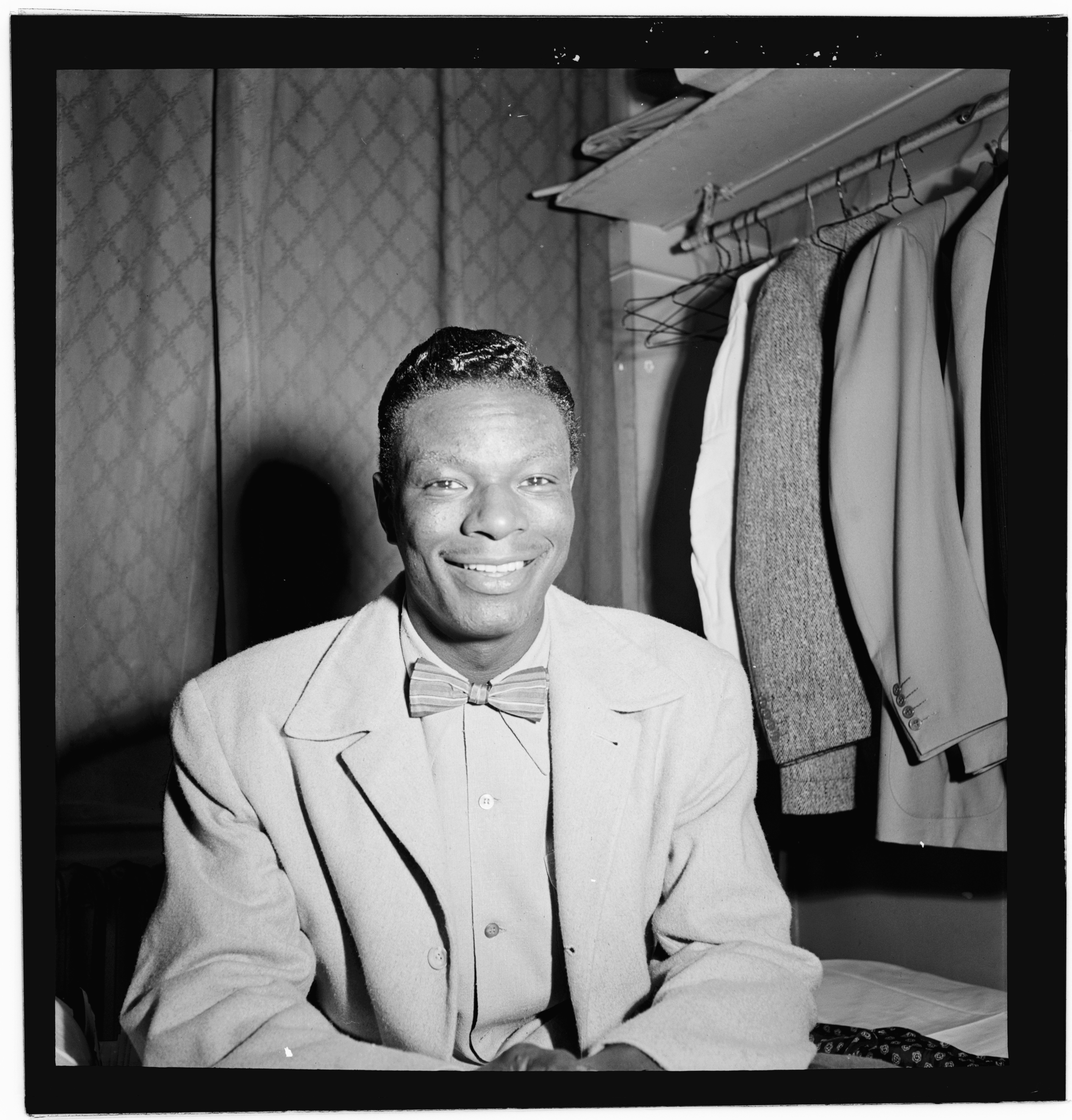 Gottlieb, William P., 1917-, photographer. [Portrait of Nat King Cole, Paramount Theater, New York, N.Y., ca. Nov. 1946] 1 negative : b&w ; 2 1/4 x 2 1/4 in. Caption from Down Beat: Jumped push-bike and pedaled to Paramount to corner King Cole & Stan Kenton. Said Cole, spelling message in Morse code on educated piano Notes: Gottlieb Collection Assignment No. 084 Reference print available in Music Division, Library of Congress. Purchase William P. Gottlieb Forms part of: William P. Gottlieb Collection (Library of Congress). In: "Posin'," Down Beat, v. 13, no. 23 (Nov. 4, 1946), p. 3. Subjects: Cole, Nat King, 1917-1965 Jazz musicians--1940-1950. Pianists--1940-1950. Jazz singers--1940-1950. Paramount Theater Format: Portrait photographs--1940-1950. Film negatives--1940-1950. Rights Info: Mr. Gottlieb has dedicated these works to the public domain, but rights of privacy and publicity may apply. Repository: (negative) Library of Congress, Prints & Photographs Division, Washington D.C. 20540 USA, (reference print) Library of Congress, Music Division, Washington D.C. 20540 USA, Part Of: William P. Gottlieb Collection (DLC) 99-401005 General information about the Gottlieb Collection is available at Persistent URL: Call Number: LC-GLB23- 0160